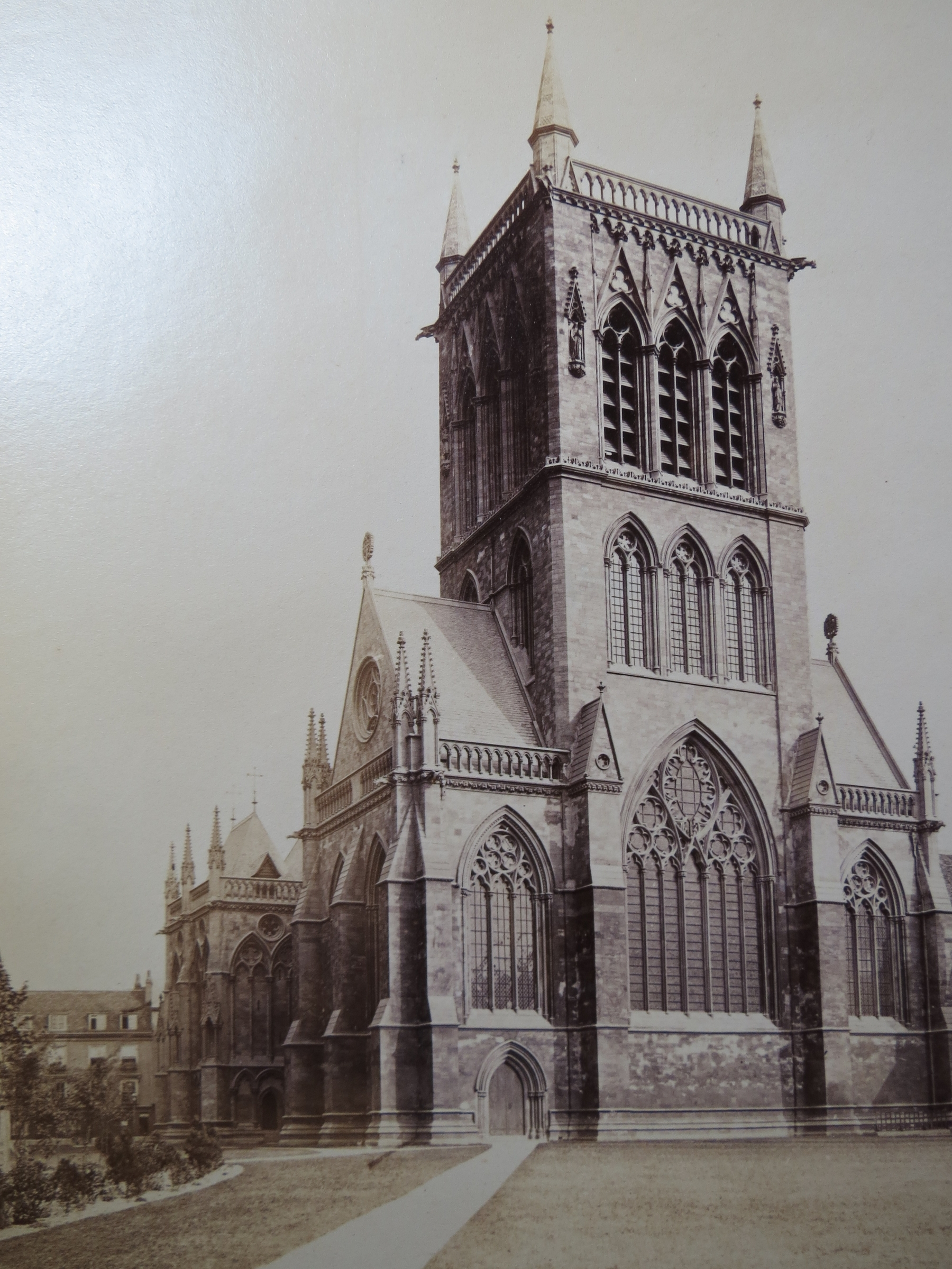 St. John's College Chapel, by George Gilbert Scott, 1866-1869, Cambridge University. Image taken from original albumen print from a bound album of 58 Cambridge University photographs. Original 19th century album in the possession of Kimberly Blaker, New Boston Fine and Rare Books.